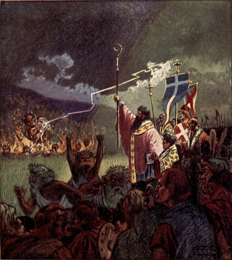 Patrick casting down cromm cruach and the twelve smaller idols